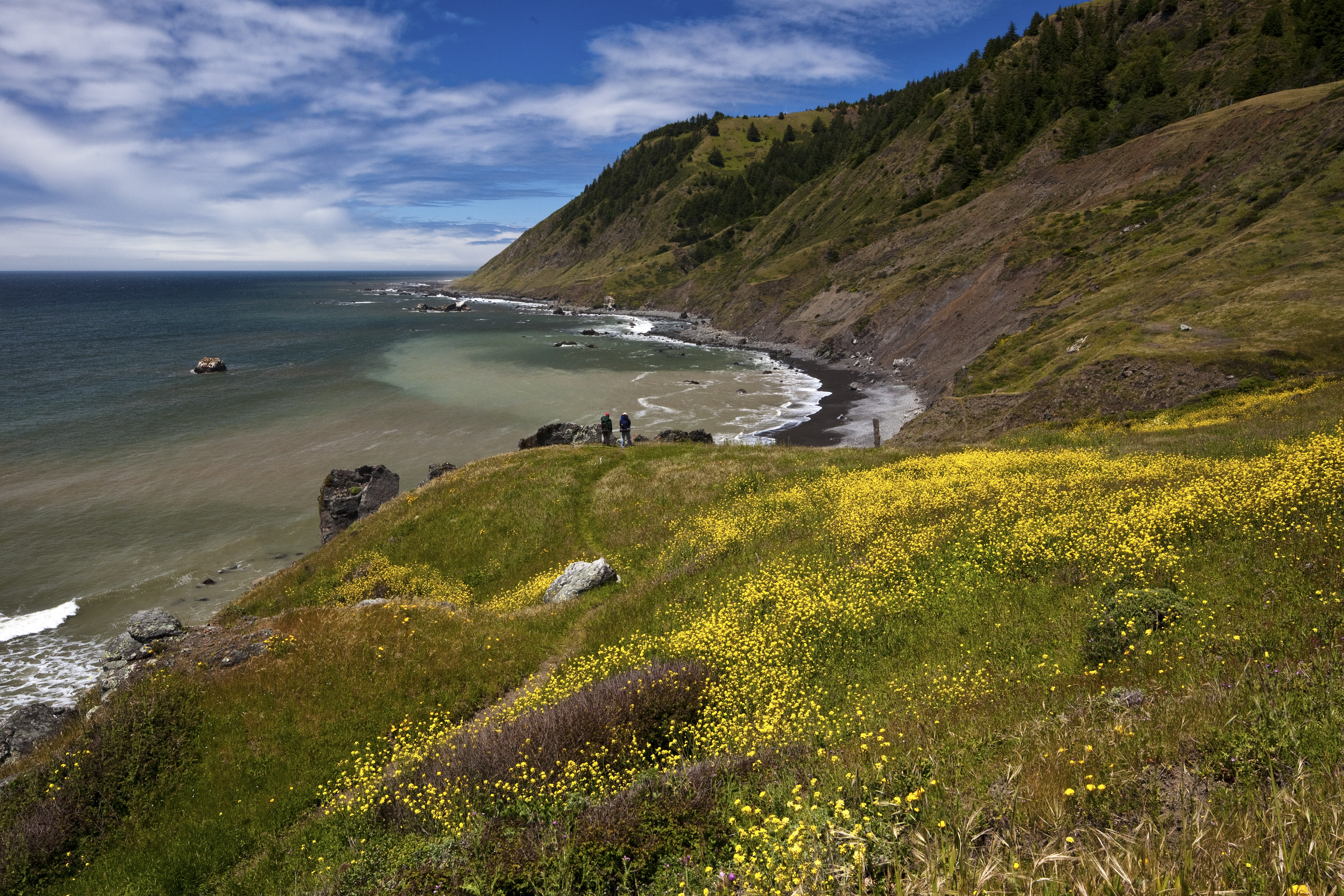 A spectacular meeting of land and sea is certainly the dominant feature of King Range National Conservation Area. Mountains seem to thrust straight out of the surf; a precipitous rise rarely surpassed on the continental U.S. coastline. King Peak, the highest point at 4,088 feet, is only three miles from the ocean. The King Range NCA covers 68,000 acres and extends along 35 miles of coastline between the mouth of the Mattole River and Sinkyone Wilderness State Park. Here the landscape was too rugged for highway building, forcing State Highway 1 and U.S. 101 inland. The remote region is known as California's Lost Coast, and is only accessed by a few back roads. The recreation opportunities here are as diverse as the landscape. The Douglas-fir peaks attract hikers, hunters, campers and mushroom collectors, while the coast beckons to surfers, anglers, beachcombers, and abalone divers to name a few. For more information visit: Photos/Videos: Bob Wick, BLM